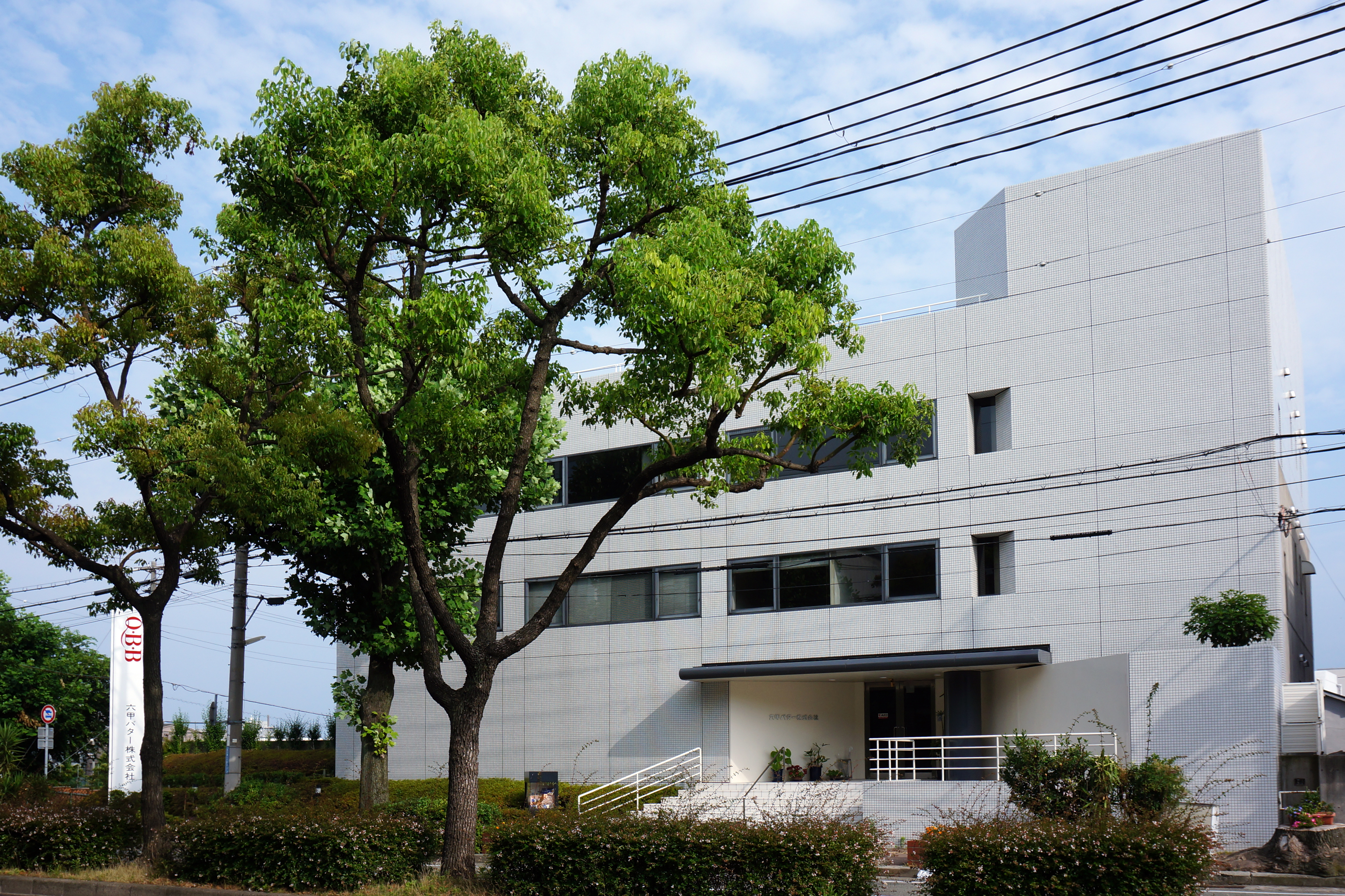 Rokko_Butter headquarters building in Kobe, Hyogo prefecture, Japan